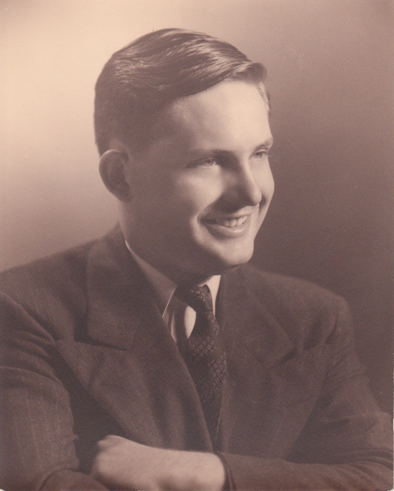 Photo taken in Midland, Texas. Retired and presently living in Fort Dodge, Iowa. Founder and Pioneer of Frontier Days in Fort Dodge, Iowa. Graduated from Oklahoma State University in 1951 Spring-Doctorate of Veterinarian of Medicine